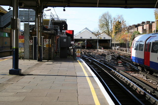 Bakerloo line sheds, Queens Park station This photograph shows the running sheds used to stable the Bakerloo trains overnight. A peculiarity here is that, in normal service, those Bakerloo trains which are on through services to and from Harrow and Wealdstone, actually pass through the sheds with passengers on board as part of their journey. This only happens at one other place in Britain! Where? Answers on a postcard, please, and don't expect much in the way of a prize!